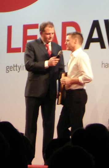 Bryan Adams receives his first LeadAward for his photos at the LeadAward ceremony at 2006-03-15 in Hamburg, Germany. The moderator is Jörg Thadeusz. Wikipedia also got a price there. See also a larger version of this image.